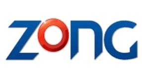 Zong's logo